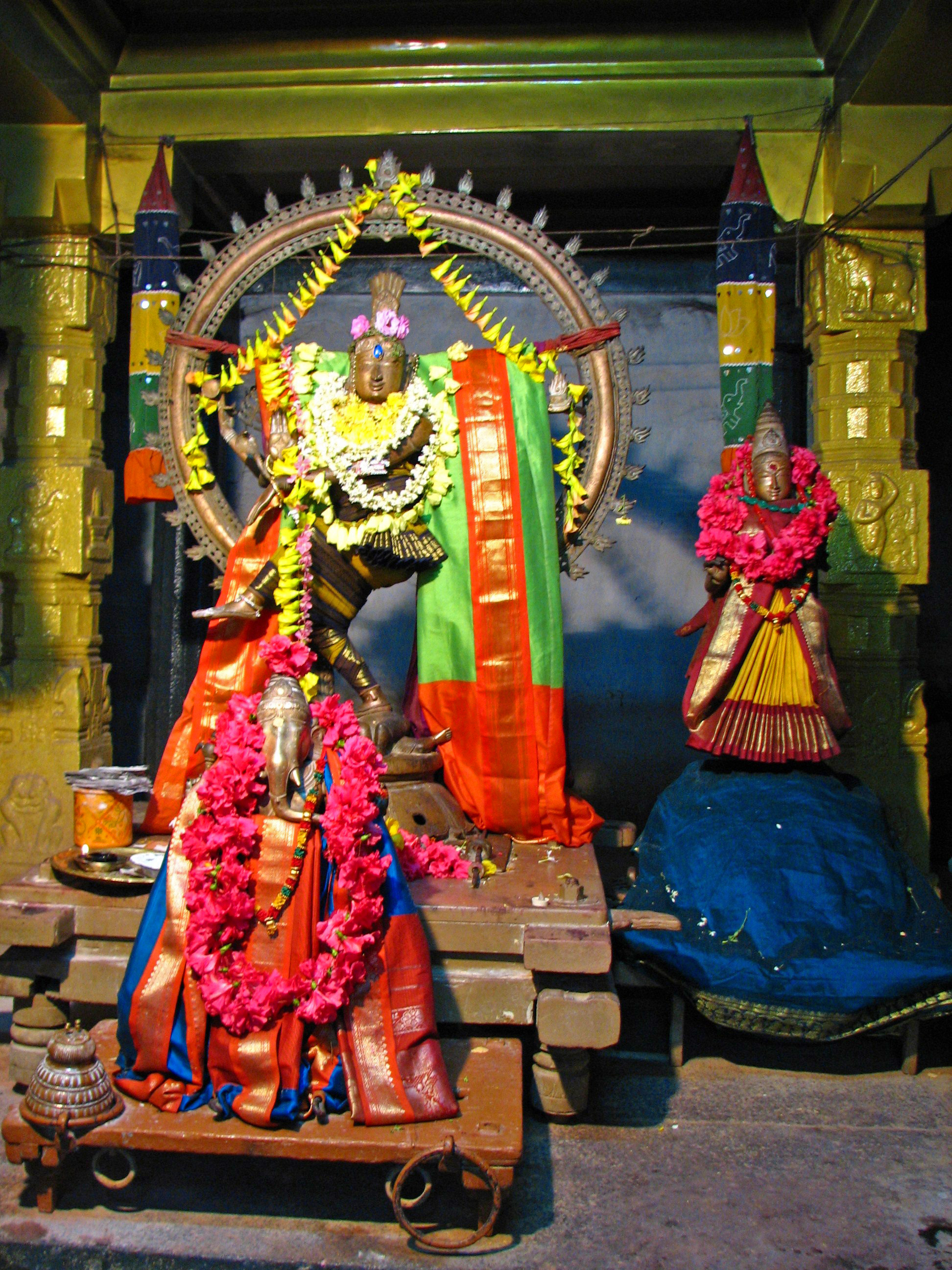 One of the inner shrines of the Ekambareswara temple and a rare one that is open to non-Hindus. The central figures are a dancing Shiva, his consort Pavarti and in front, elephant-headed Ganesh. Welcoming all faiths to experience a part of the religion, the sadhu performed a pooja and prayer for us for health and success including annointing the idols with oil, sandalwood and other items, offering flowers (jasmine), wafting incence and marking of our foreheads with sacred ash and red kumkum (vermillion), made from tumeric and slacked lime.